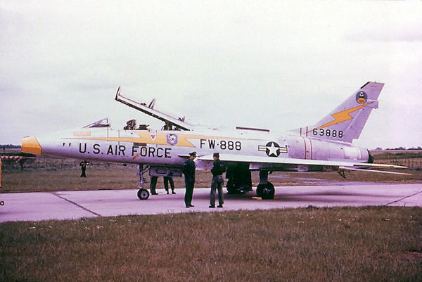 F-100F-10-NA 56-3888 of the 79th Tactical Fighter Squadron / 20th Tactical Fighter Wing - at RAF Wethersfield, UK.